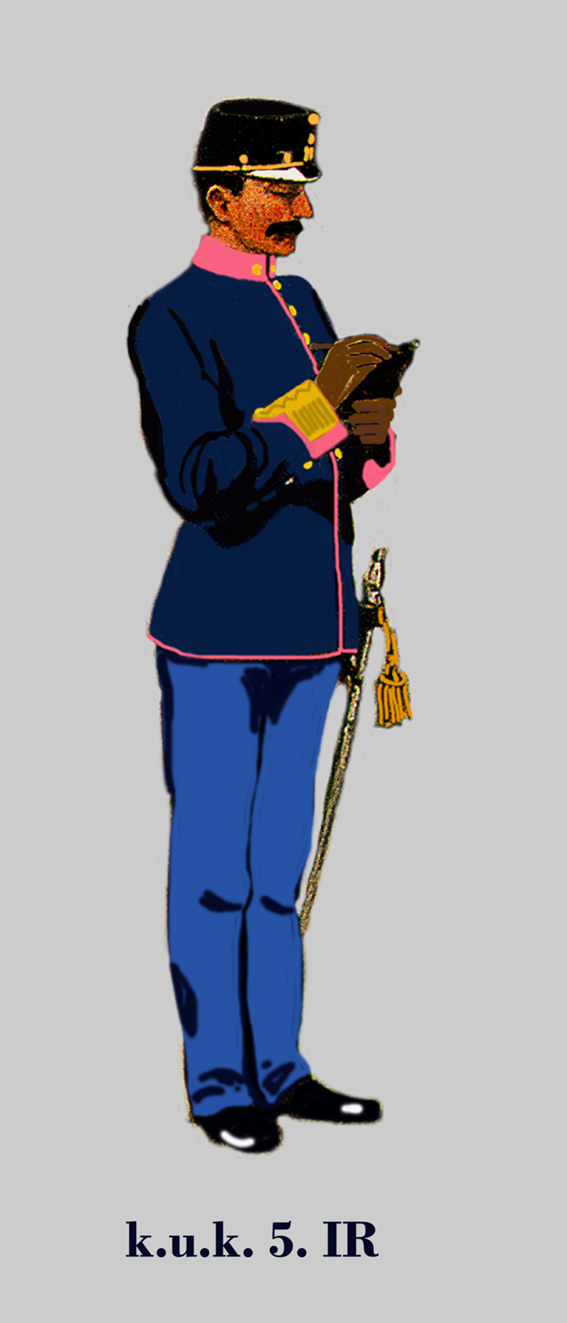 Lieutenant of the Austria-Hungarian (k.u.k.). 5th hungarian Infantry Regiment in Service dress 1914